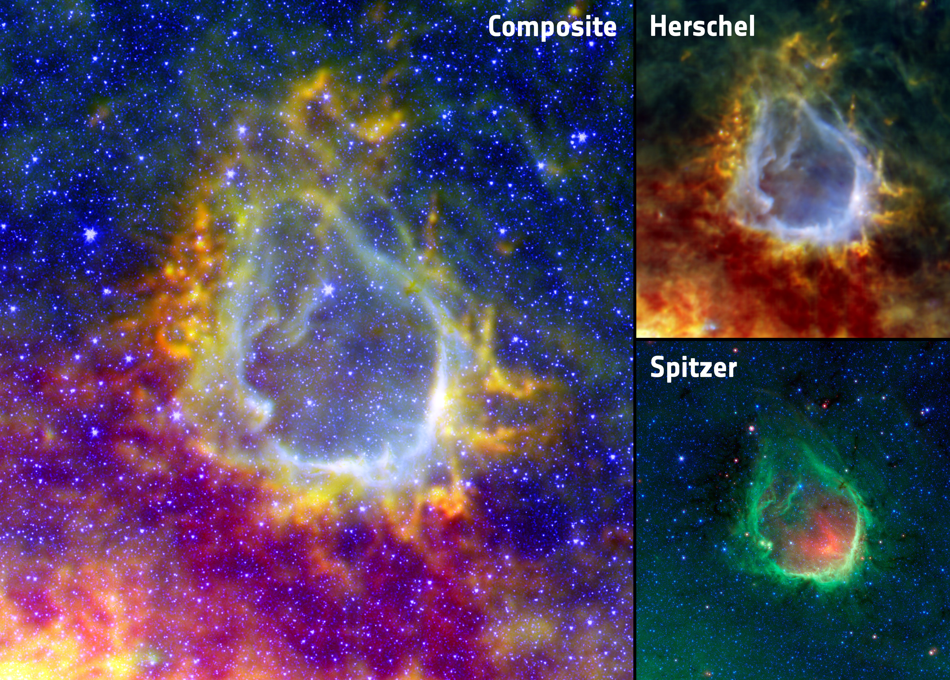 This three panel image shows a composite of RCW 120 with data from Herschel Space Observatory and Spitzer Space Telescope. In the composite image red and yellow show cool dust, seen by Herschel. Bluer colours show warmer dust detected by Spitzer, as well as stars which are either in front of or behind the ring. The insets show the individual images from the two satellites.